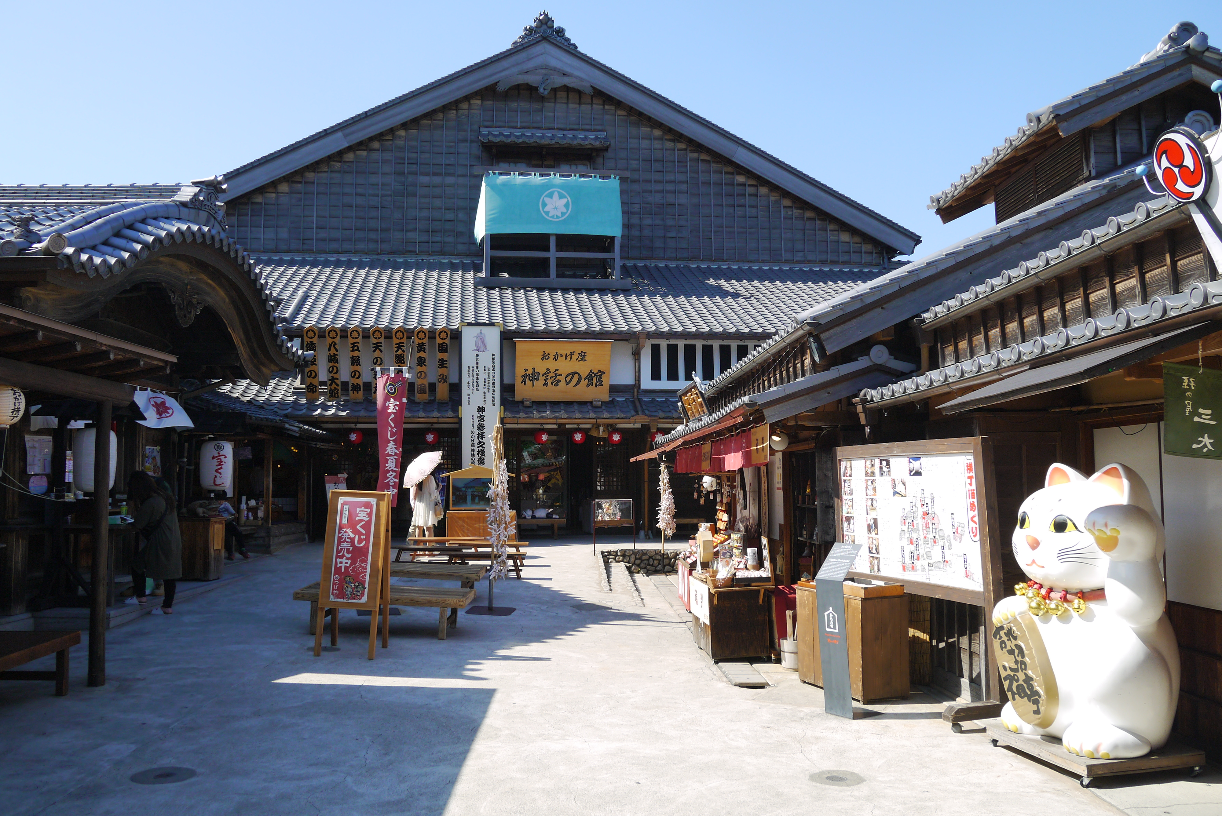 Okage_Yokocho, Ise, Mie prefecture, Japan Panasonic Lumix DMC-GF5